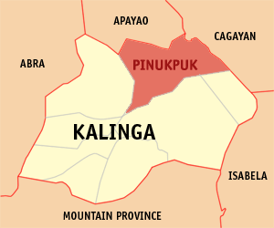 Map of Kalinga showing the location of Pinukpuk